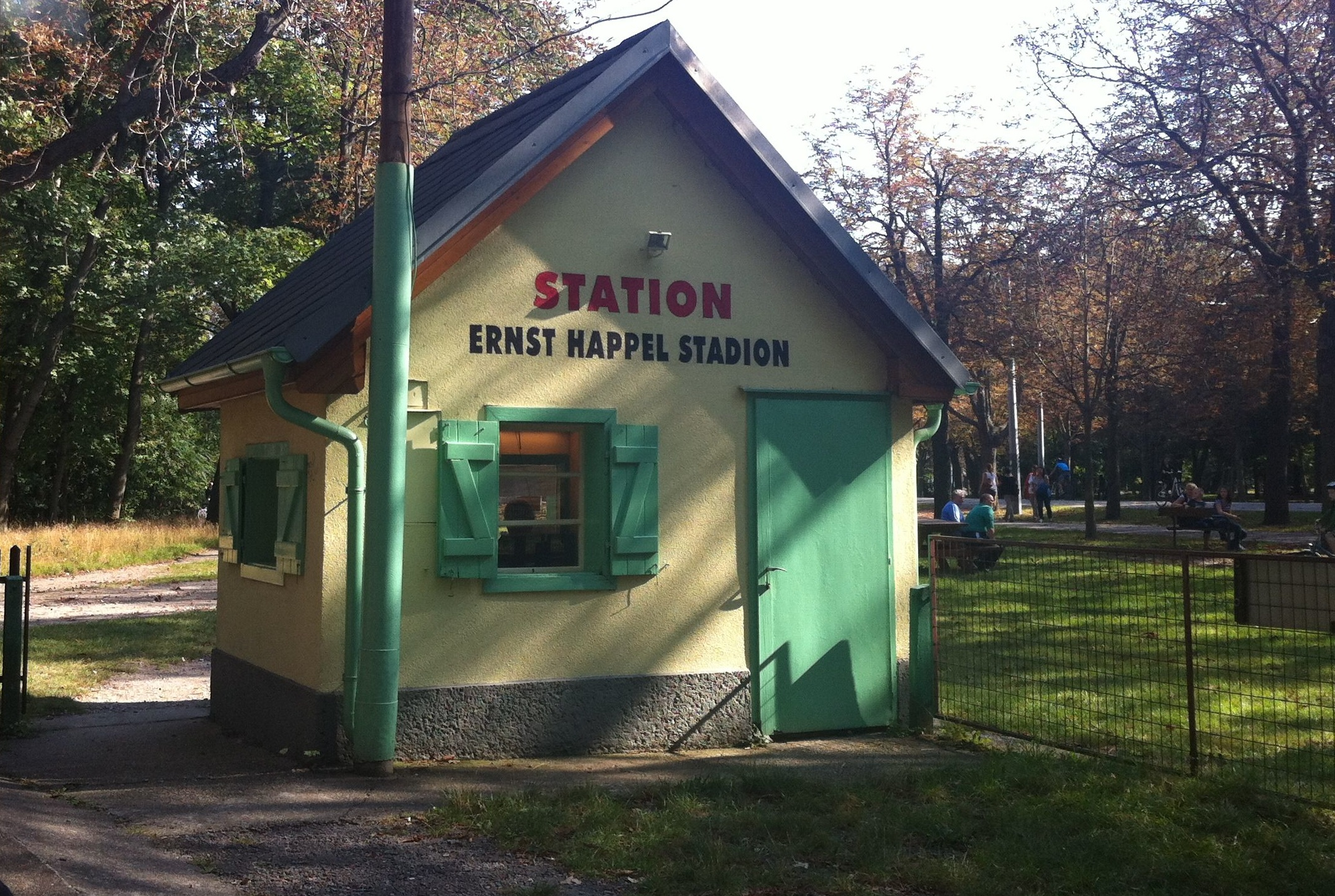 The Stadium railway station of the Prater Liliputbahn, a 15 inch gauge railway in Vienna, Austria.